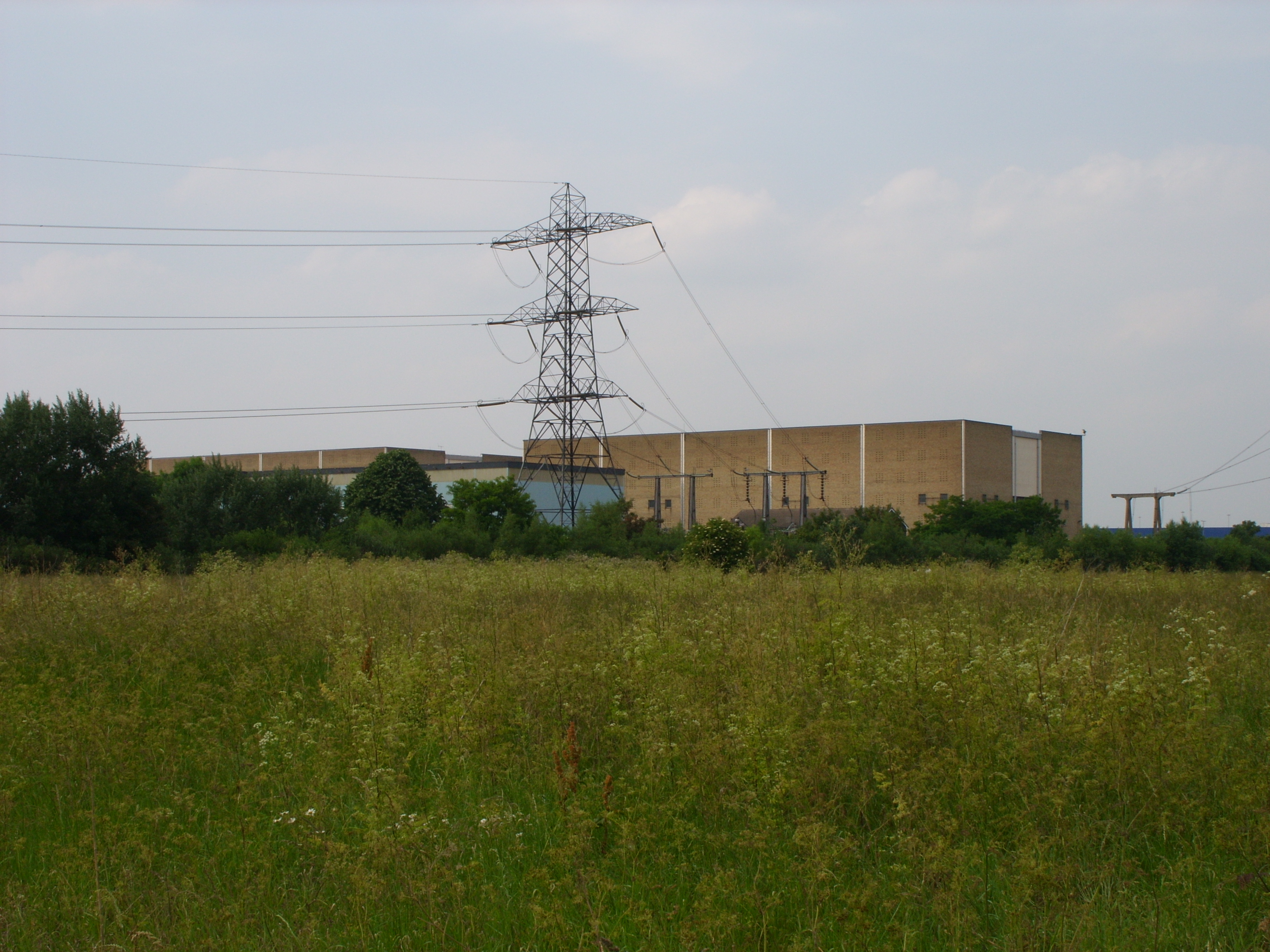 Electricity substation, Tottenham